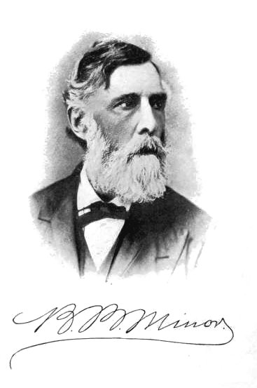 Engraving of American educator, lawyer, editor, and author Benjamin Blake Minor. Image includes replicated signature. From The Southern Literary Messenger, 1834-1864 by Benjamin Blake Minor, LL. D. New York and Washington: The Neale Publishing Company, 1905.